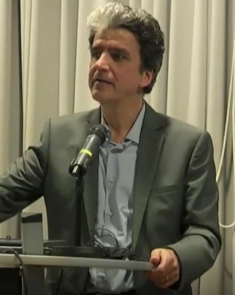 Dr. Heiner Barz on a talk hosted by IIK. Screenshot of the event's recording. Keynote speaker is Prof. Dr. Raimund Schirmeister.